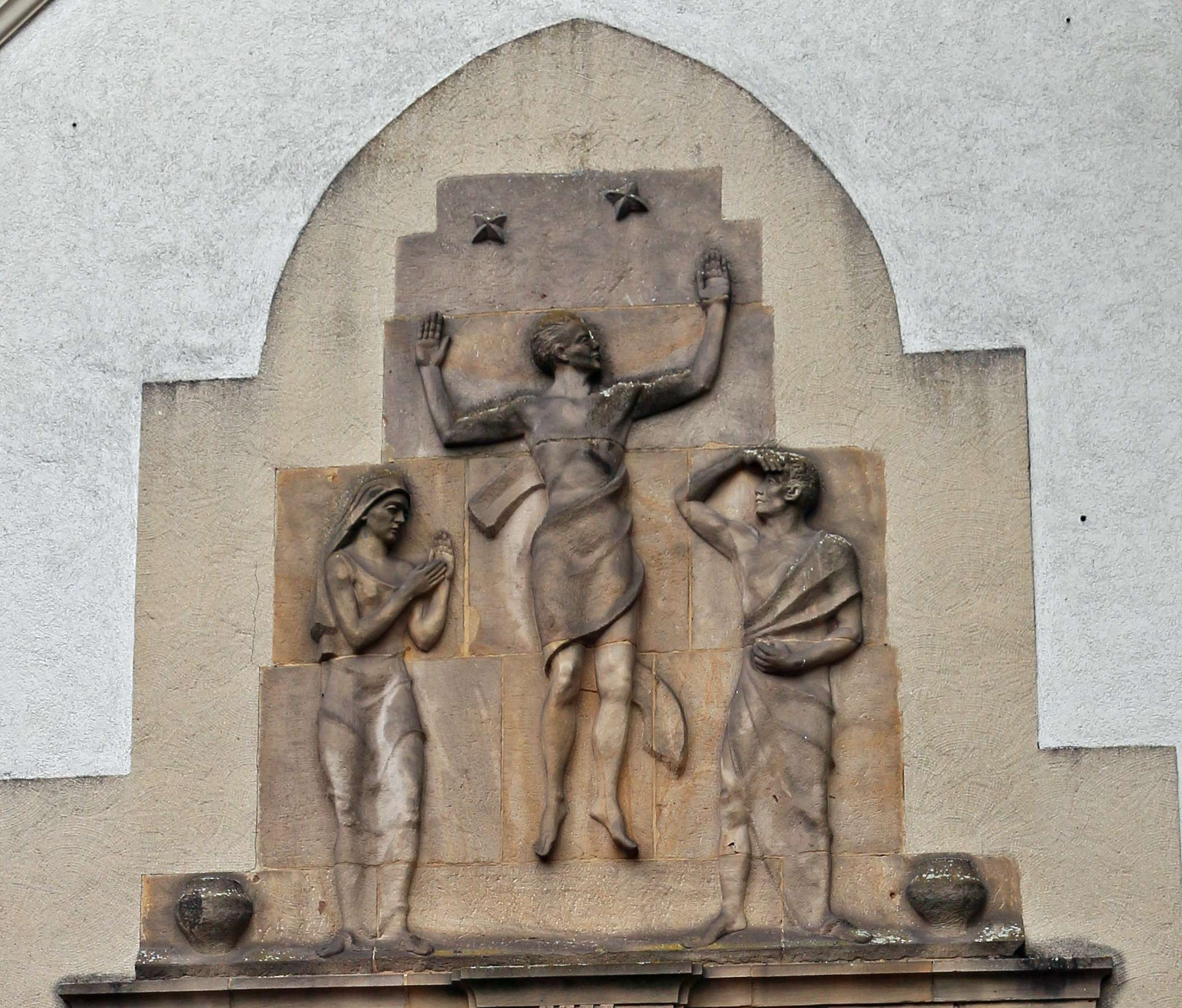 Lu.-Friesenheim Friedhofskapelle Auferstehungsrelief von Theobald Hauck